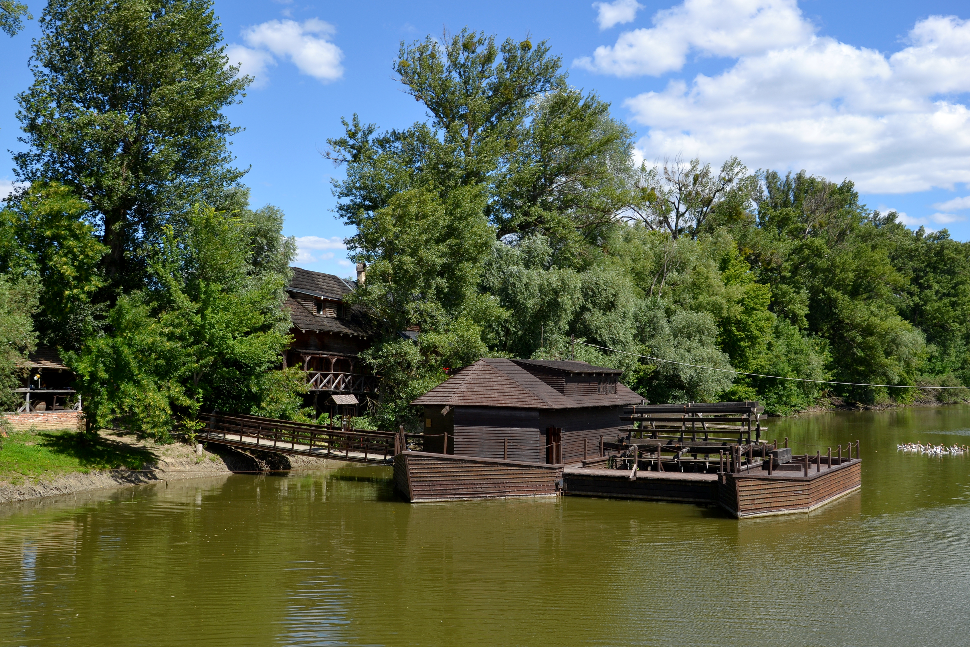 Watermill (shipmill) in Kolárovo (Gúta), Slovakia